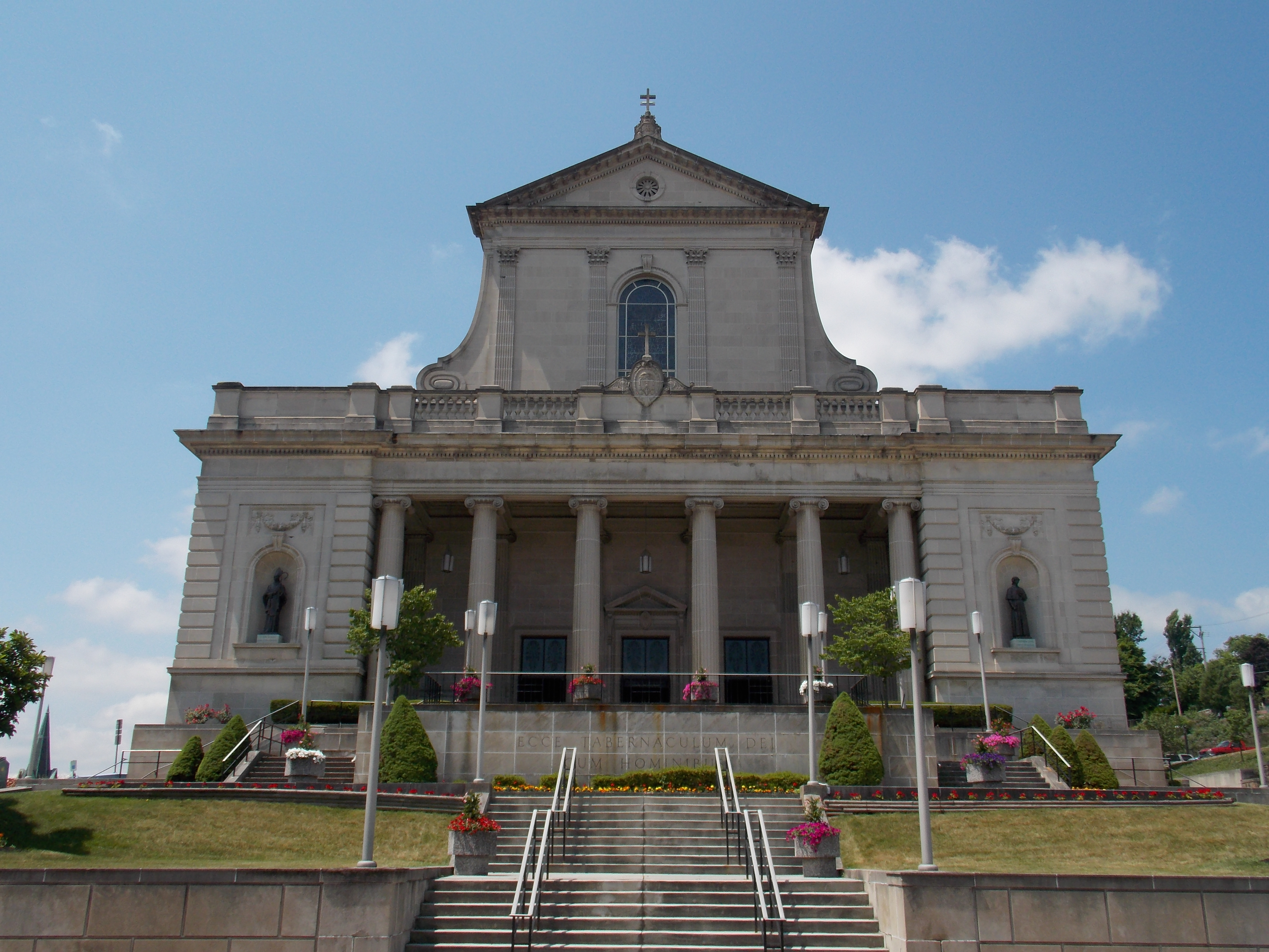 The Cathedral of the Blessed Sacrament in Altoona, Pennsylvania is a contributing property in the Downtown Altoona Historic District.